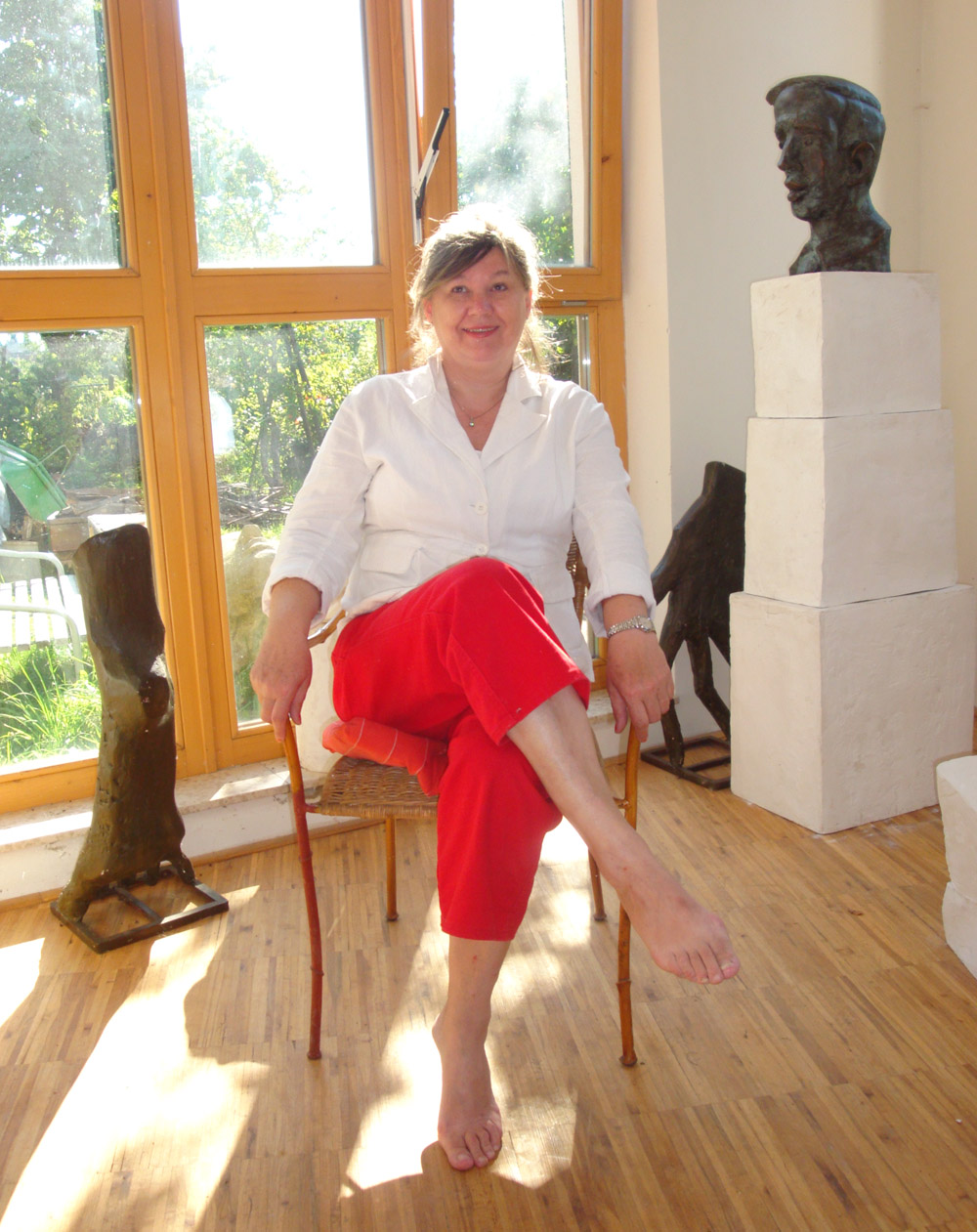 Portrait of a well known Czech artist Ellen Jilemnická in her atelier at Hořice v Podkrkonoší, Czech Republic.